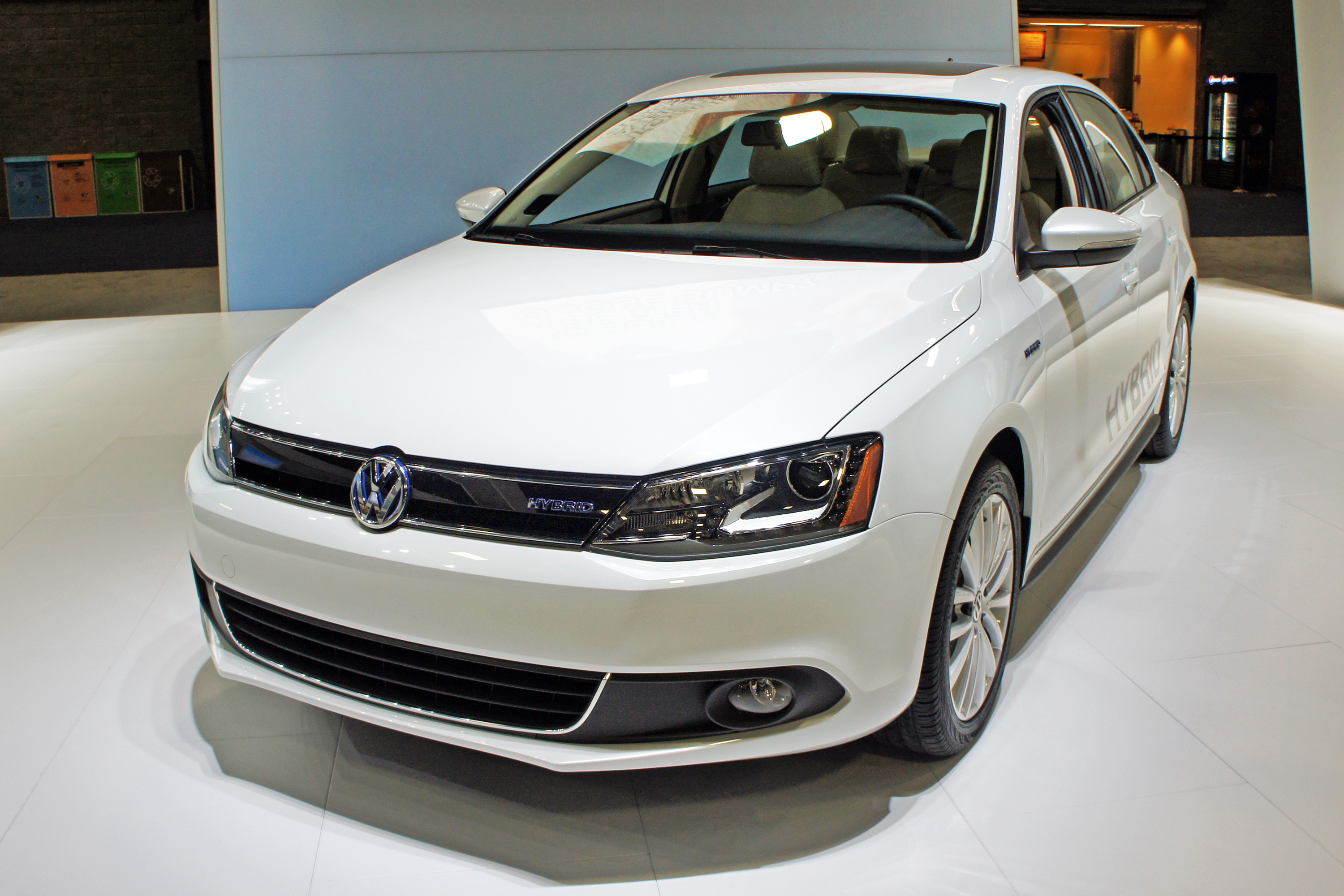 2013 VW Jetta Hybrid exhibited at the 2012 Washington Auto Show (D.C.)